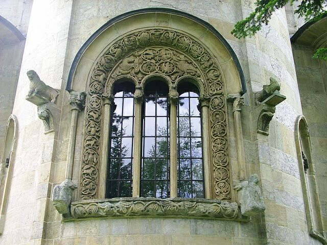 Visoki Dečani monastery (Serbian orthodox church) in Kosovo